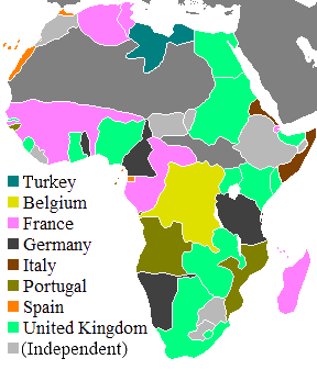 Map showing European claims on Africa in 1900.